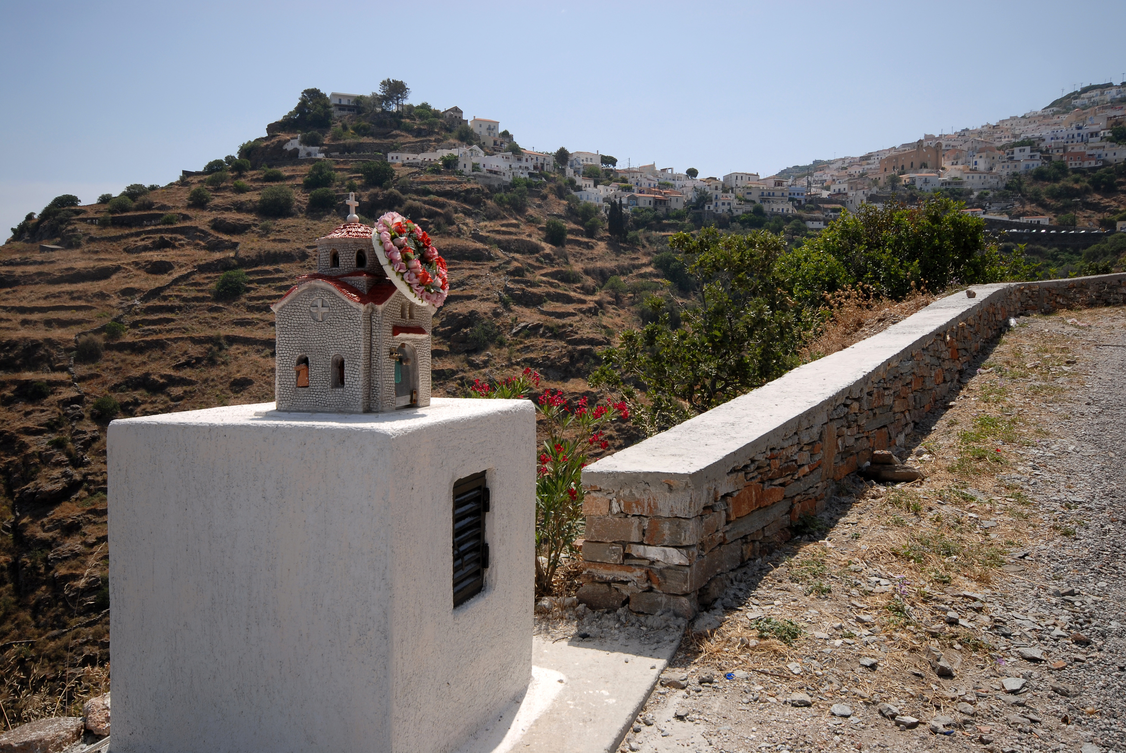 Ioulida on Kea from the west